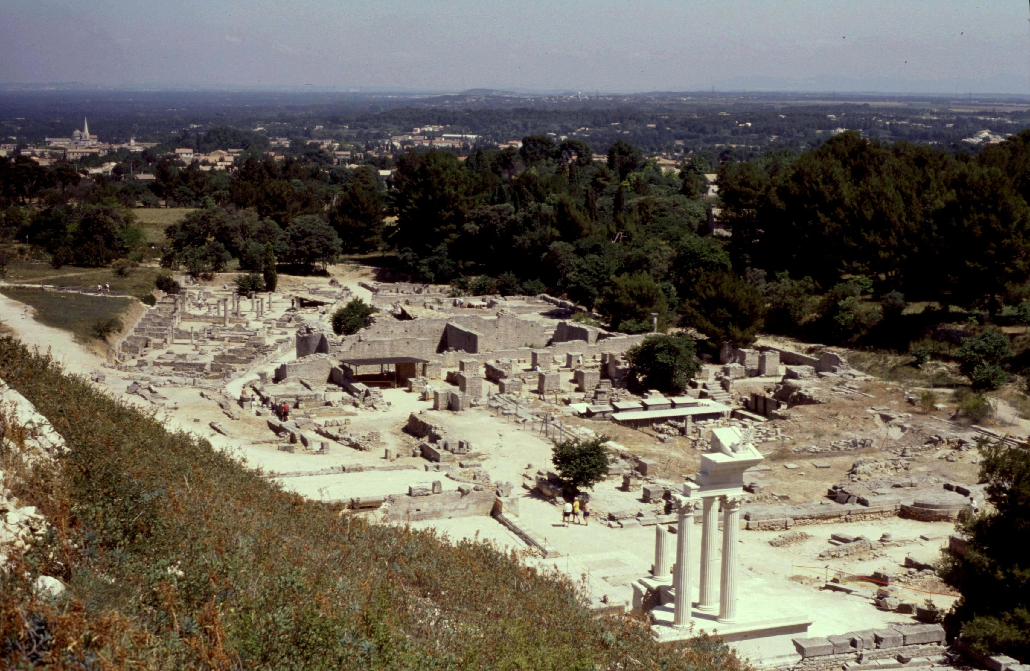 Bouches-Du-Rhone Saint-Remy-De-Provence Glanum 071993